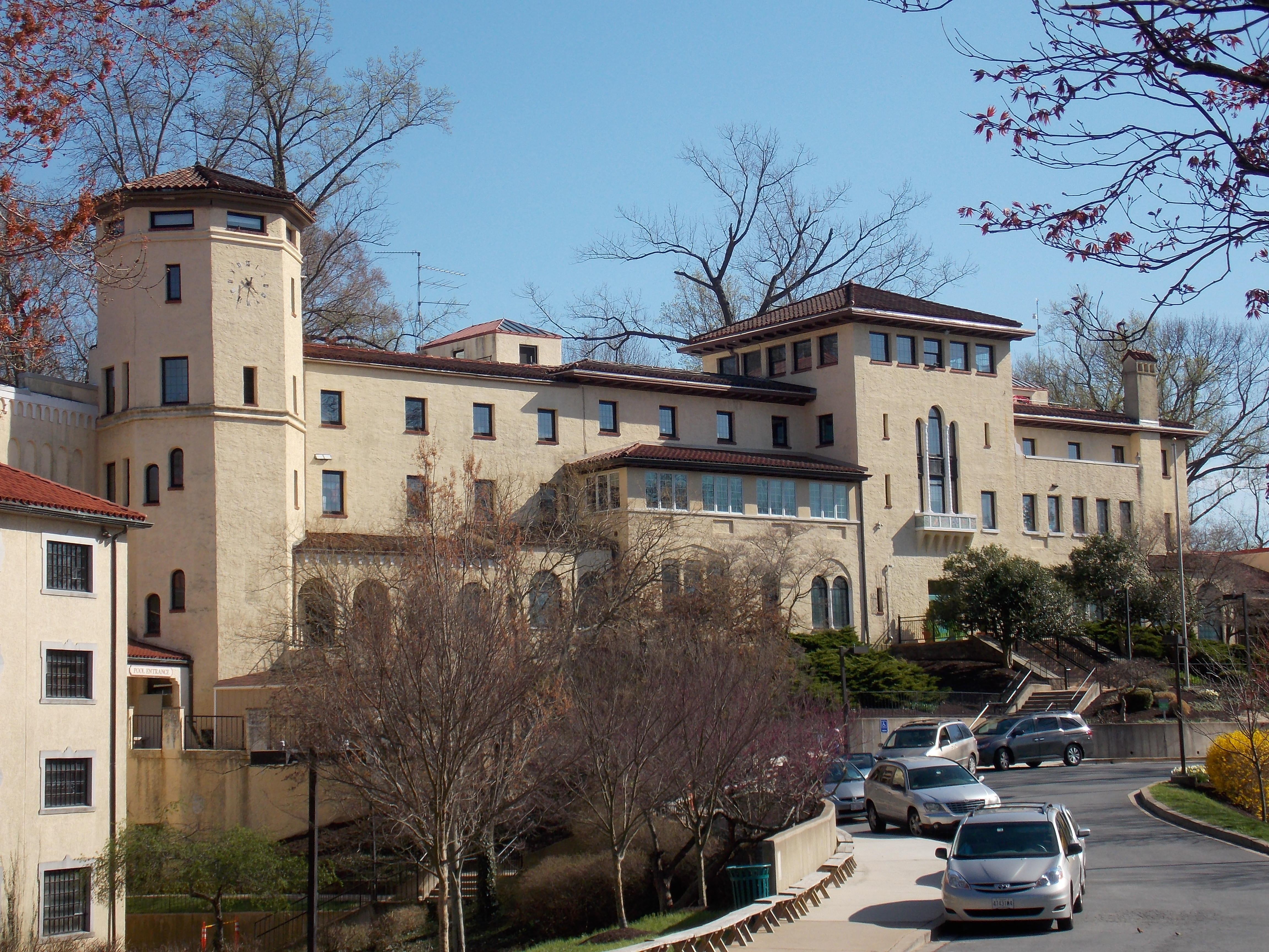 The Lowell School in Washington, D.C., which is listed on the National Register of Historic Places as the Marjorie Webster Junior College Historic District.